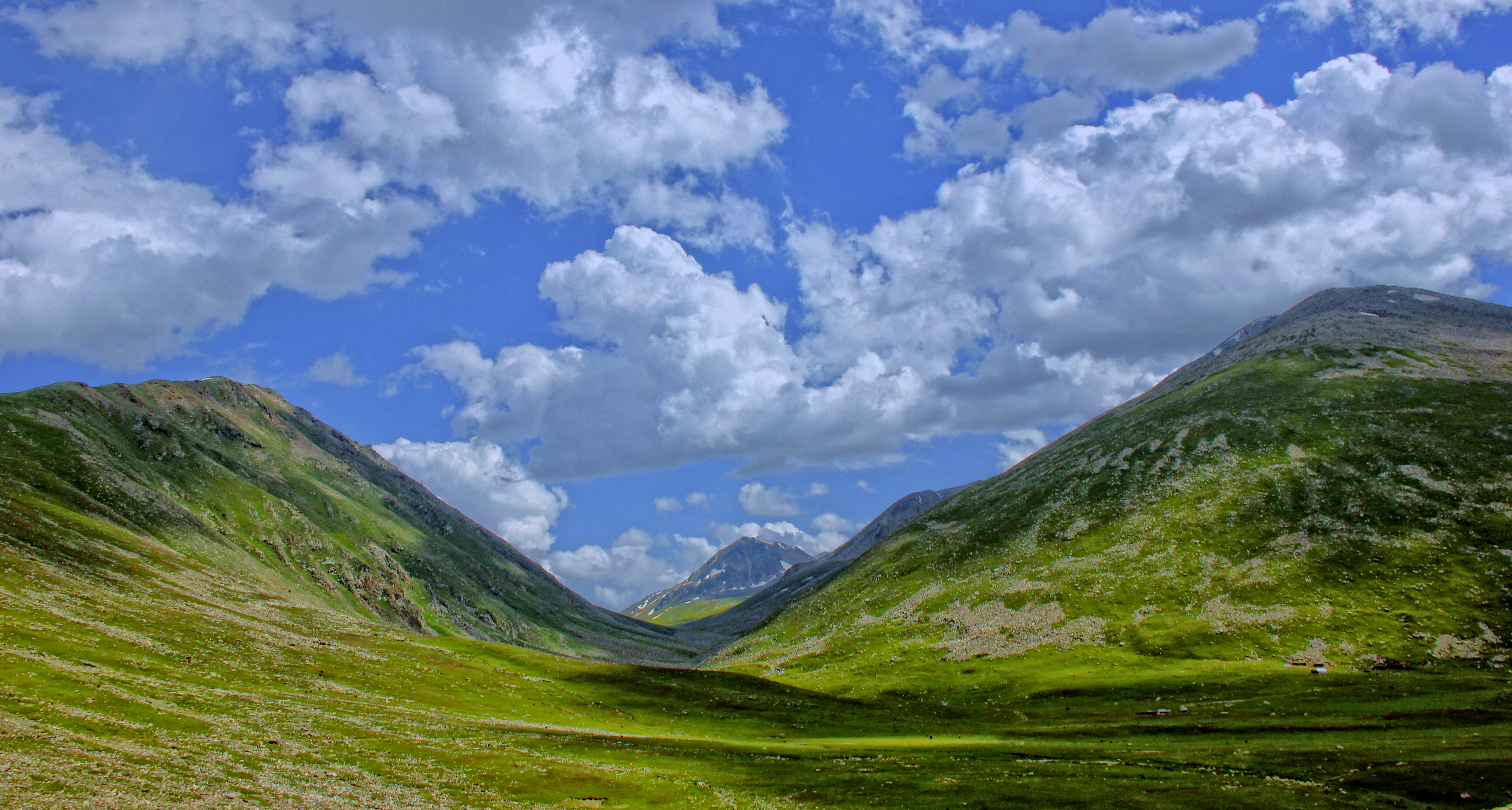 Another Way for Astore valley GilgitBaltistan